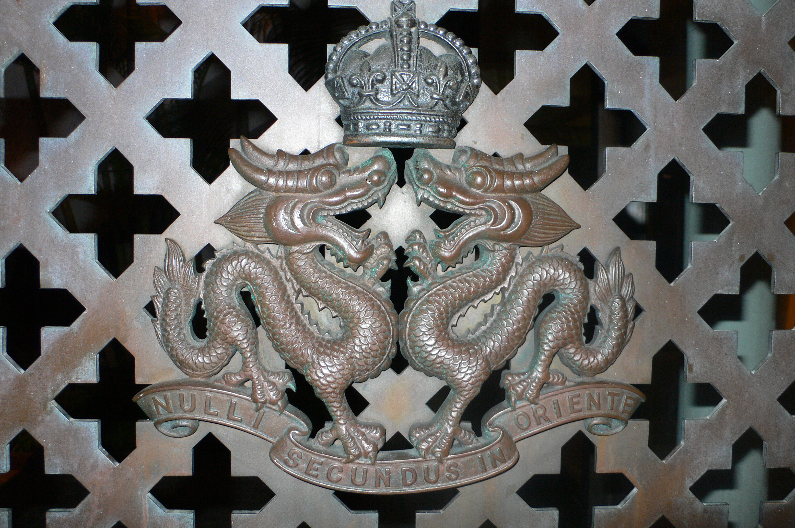 Coat of Arms of Royal Hong Kong Regiment. Photo taken outside City Hall, Central, Hong Kong